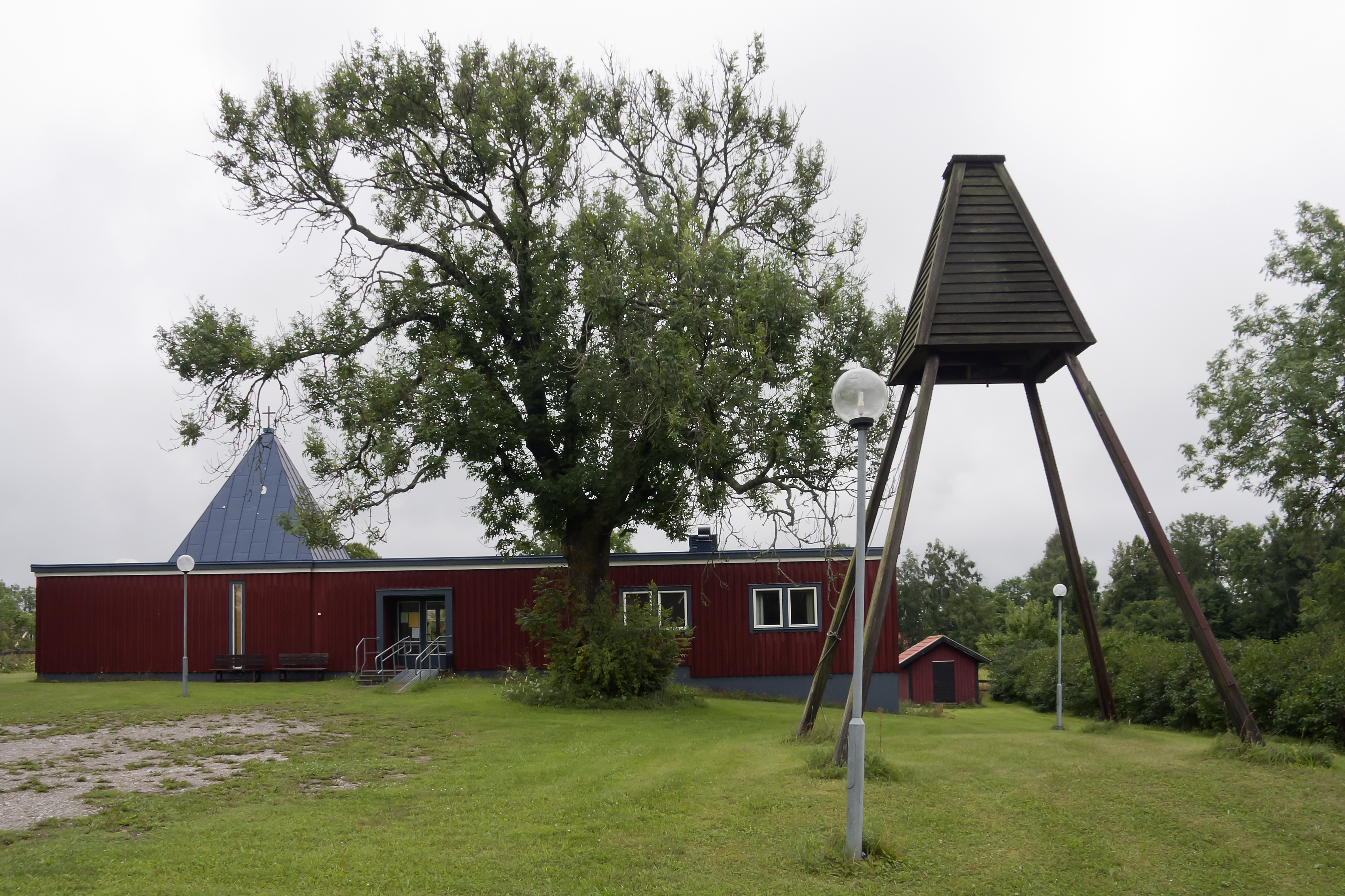 Sankt Olofs kapell (Chapel of St. Olof) in Byxelkrok, Böda, Öland, Sweden.